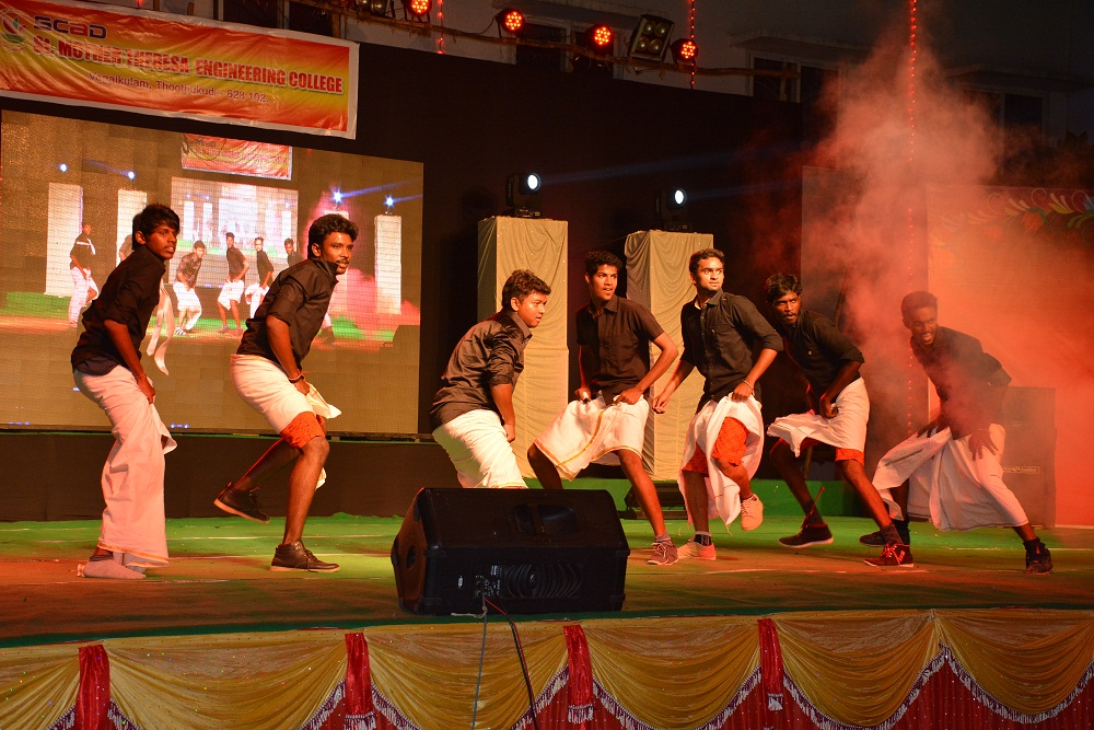 College day SMTEC